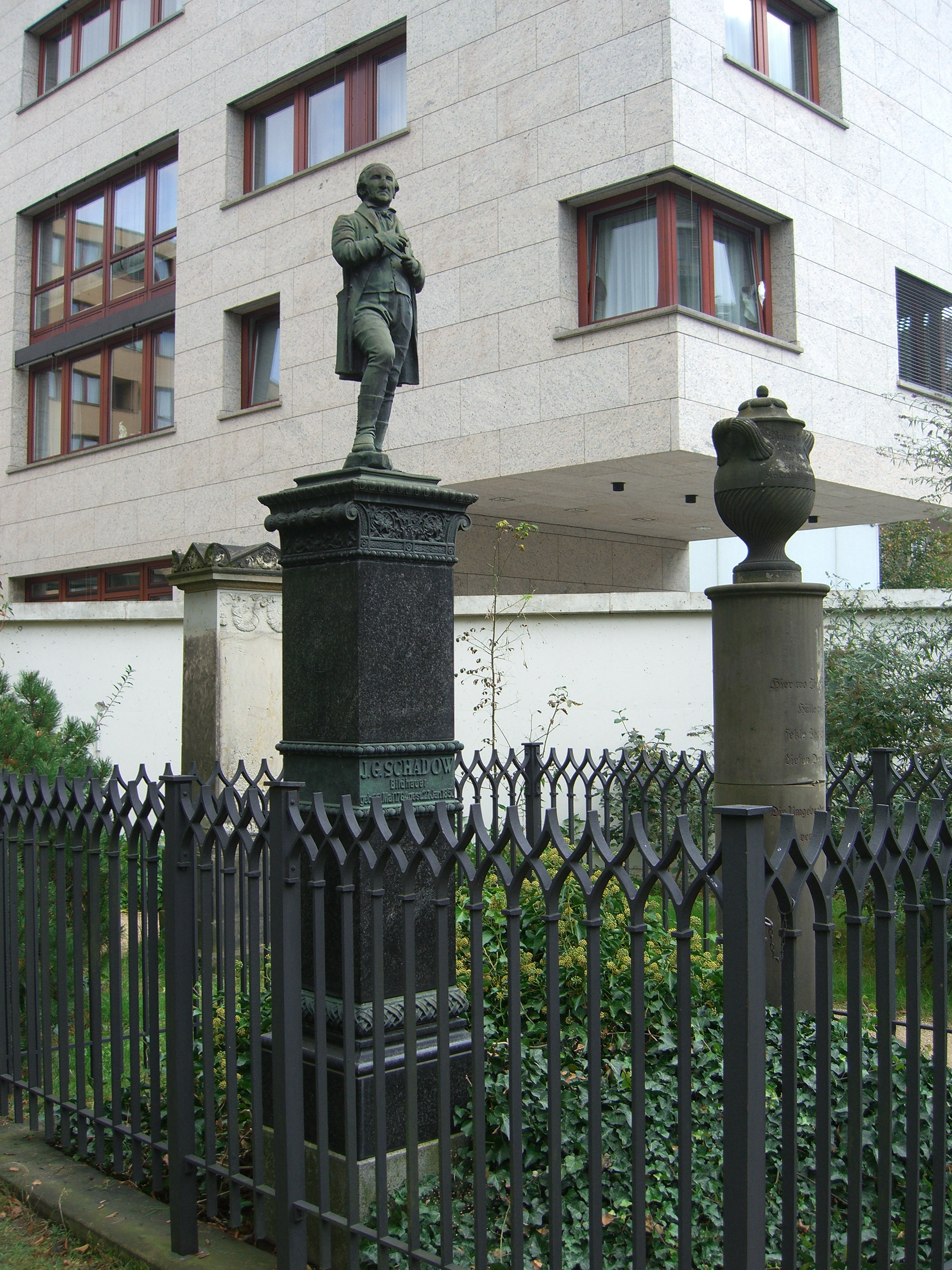 Grave of Johann Gottfried Schadow in Berlin, sculptured by Heinrich Kaehler